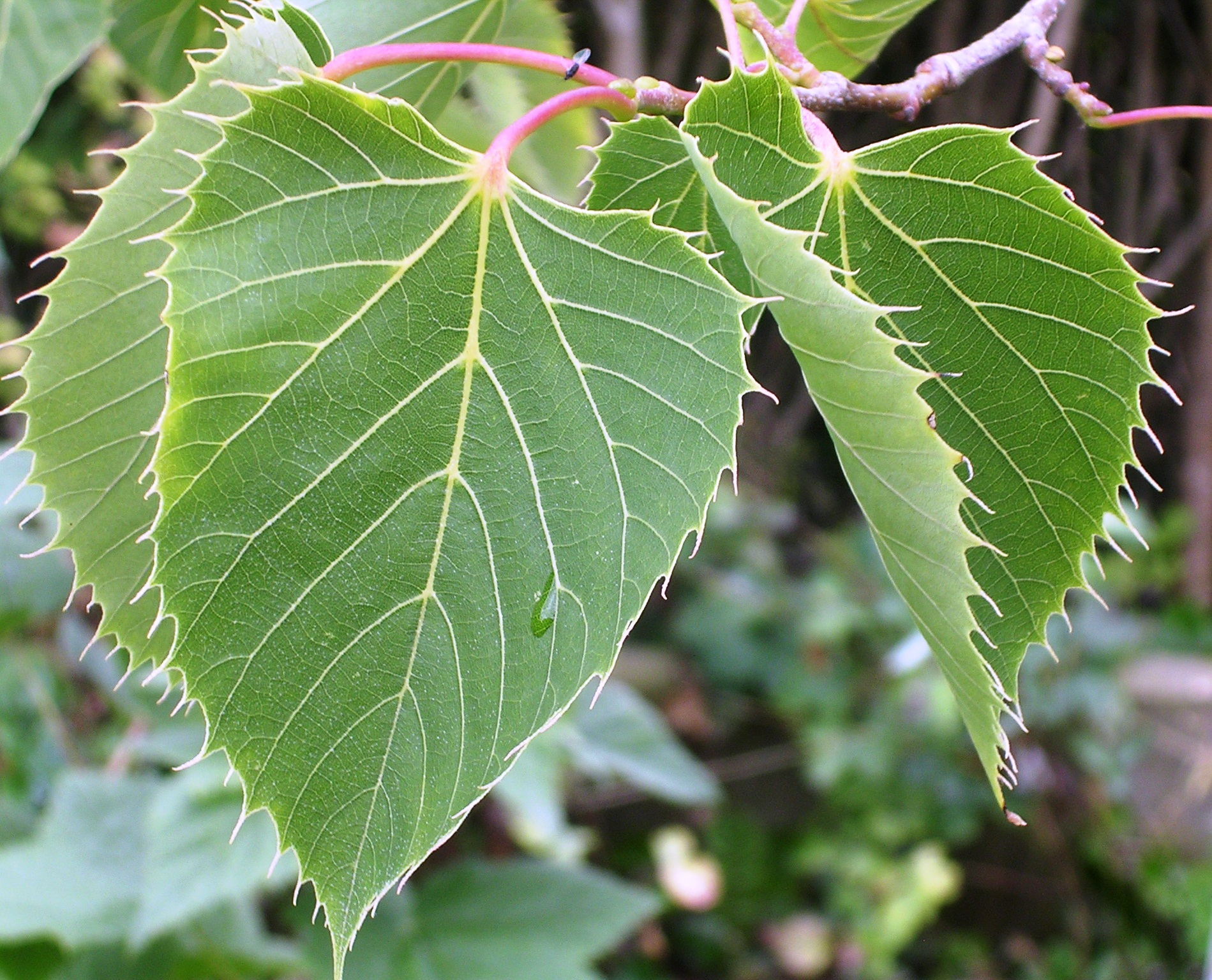 Tilia henryana leaves, England